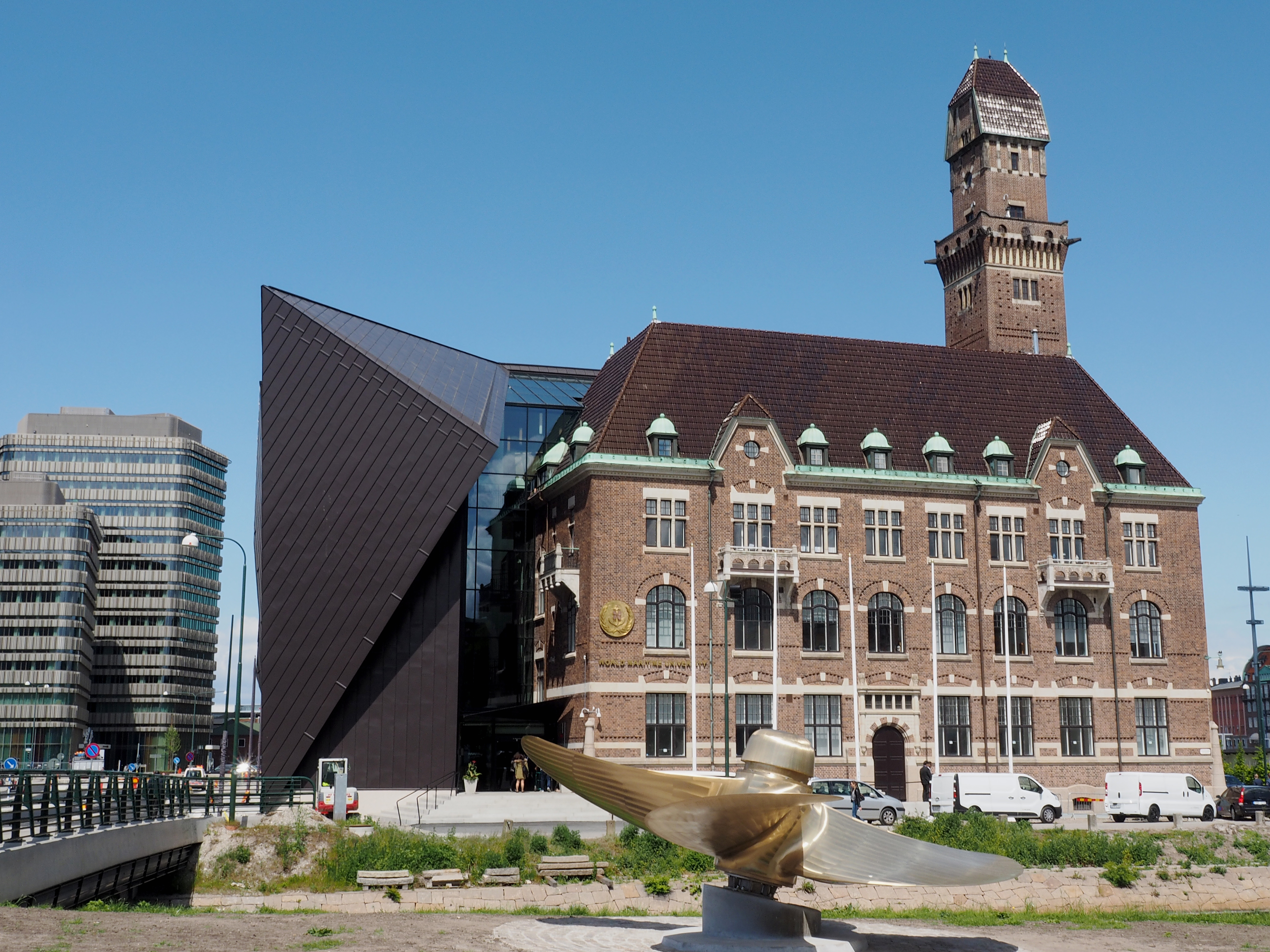 World Maritime University